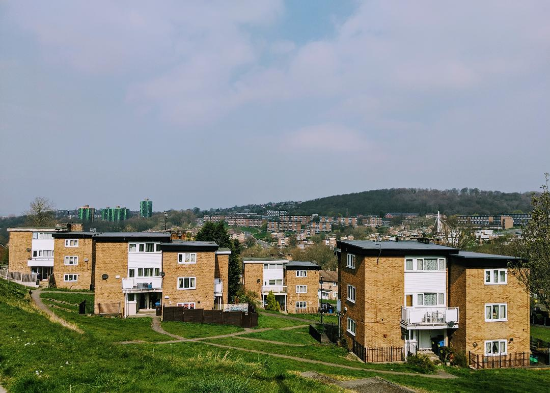 Gleadless Estate Architecture and Town Planning